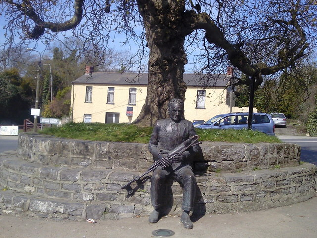 Seamus Ennis Statue, The Naul, Co Dublin See a description of Seamus Ennis here S%C3%A9amus_Ennis. The statue is under the old horse chestnut tree, a well-known landmark locally.